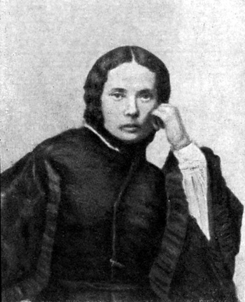 Maria Isayevna, first love of novelist Fyodor Dostoyevsky. They never had a good relationship. Date of marriage: 7 February 1857